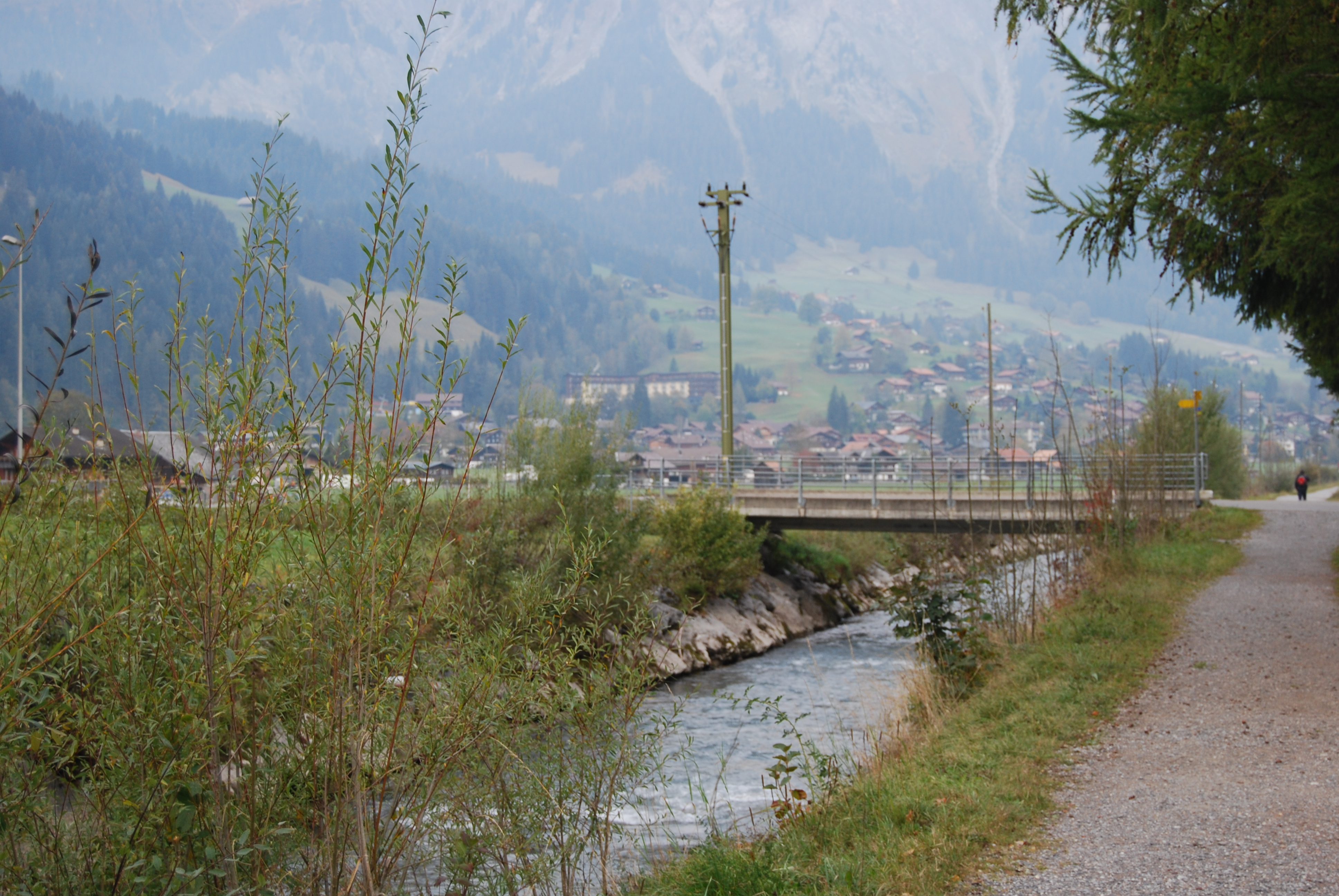 River Simme at Lenk, canton of Bern, SwitzerlandEsperanto: Rivero Simme en Lenk, Kantono Berno, Svislando